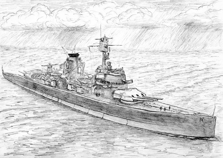 Deutschland (German armored ship, 1931-1945). Deutschland was renamed Lützow on 15 November 1939.